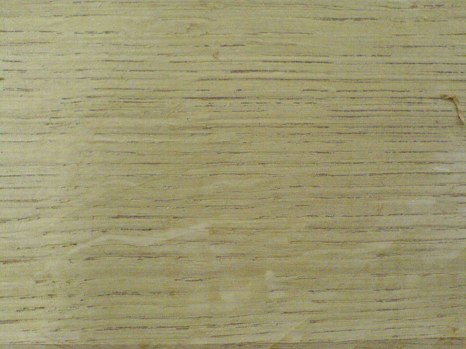 oak